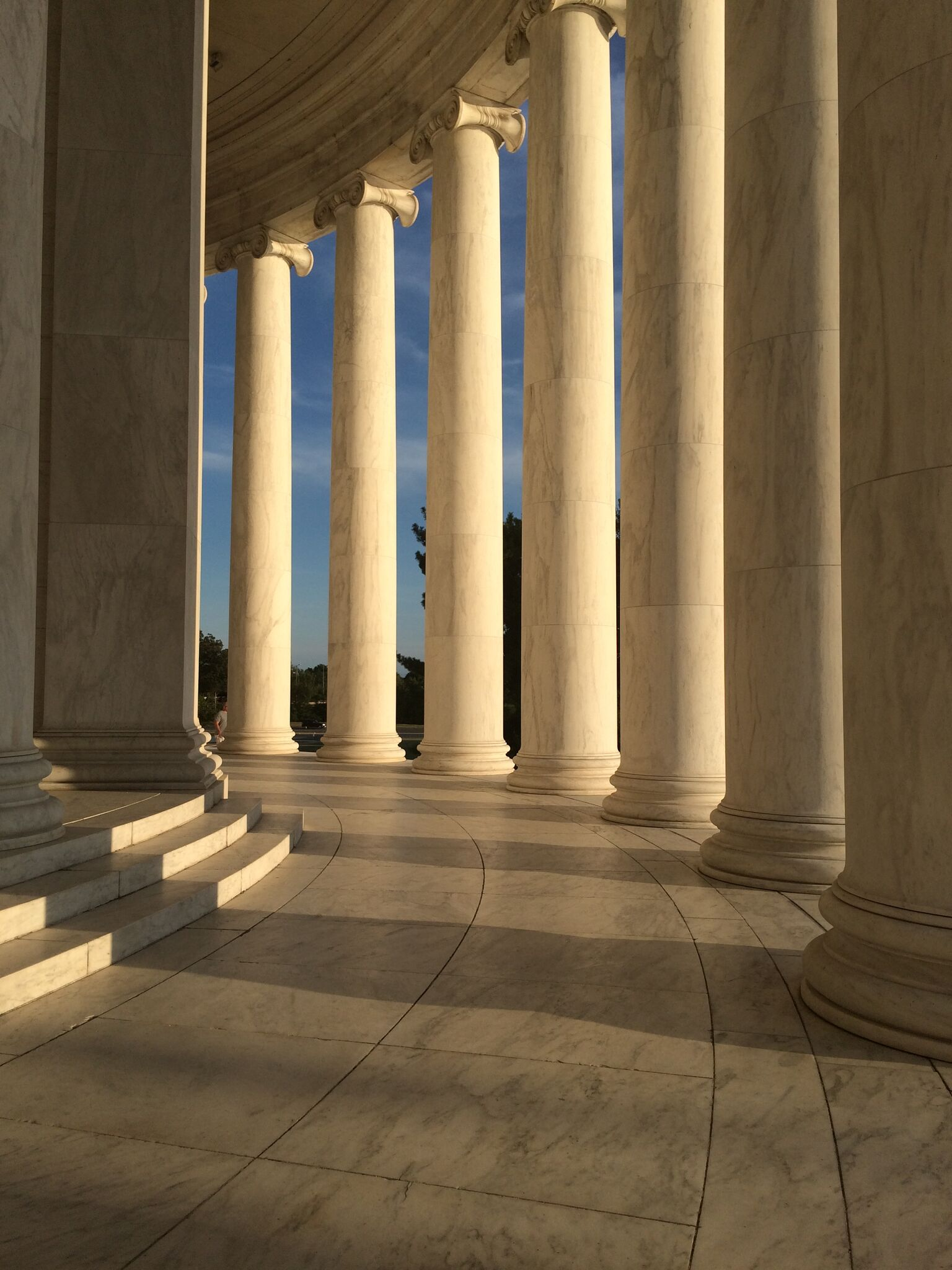 The Jefferson Memorial colonnade